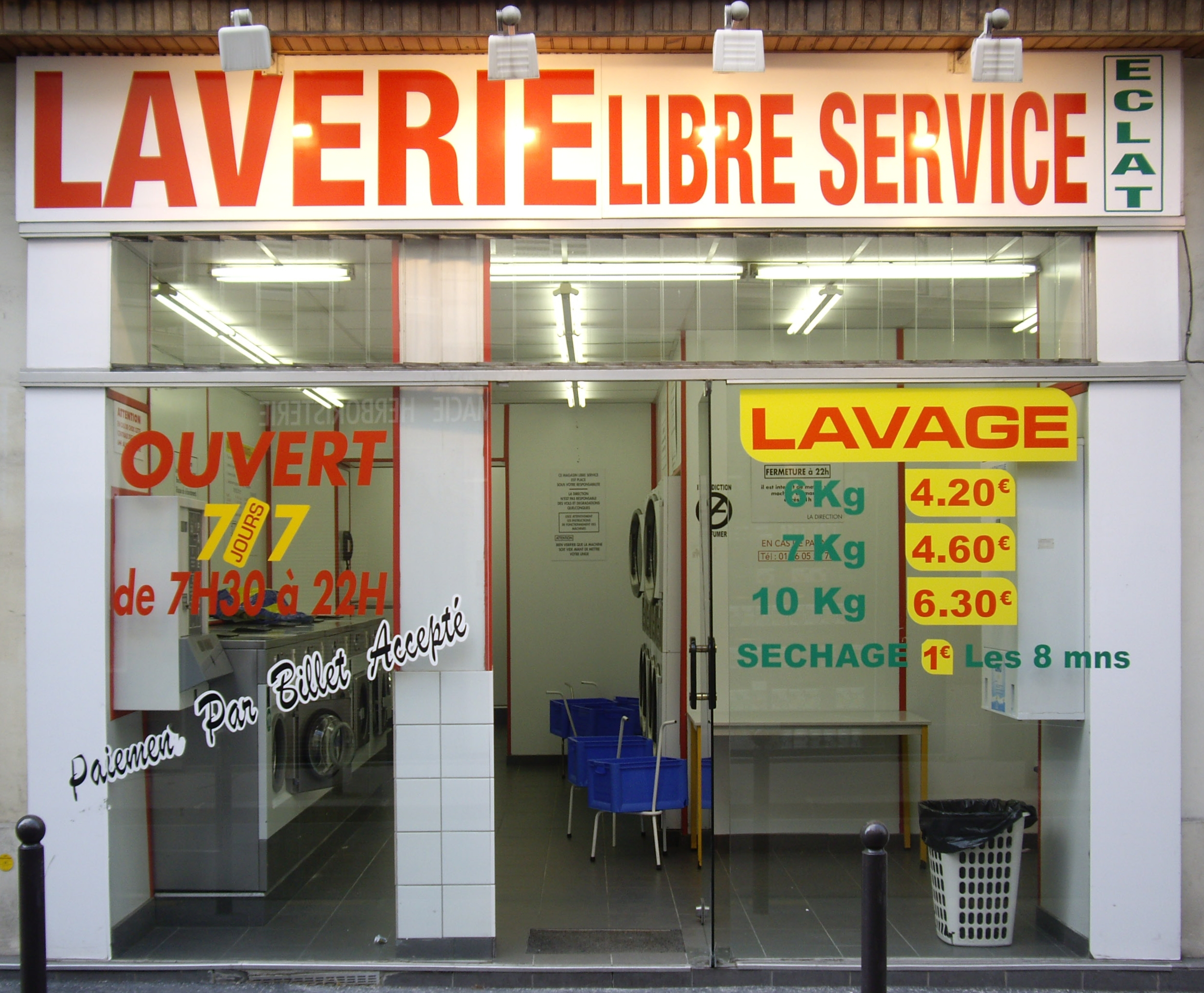 A laundrette, or laundromat, in Rue de la Comète, Paris 7e.